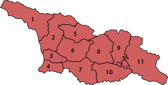 Administrative regions of Georgia